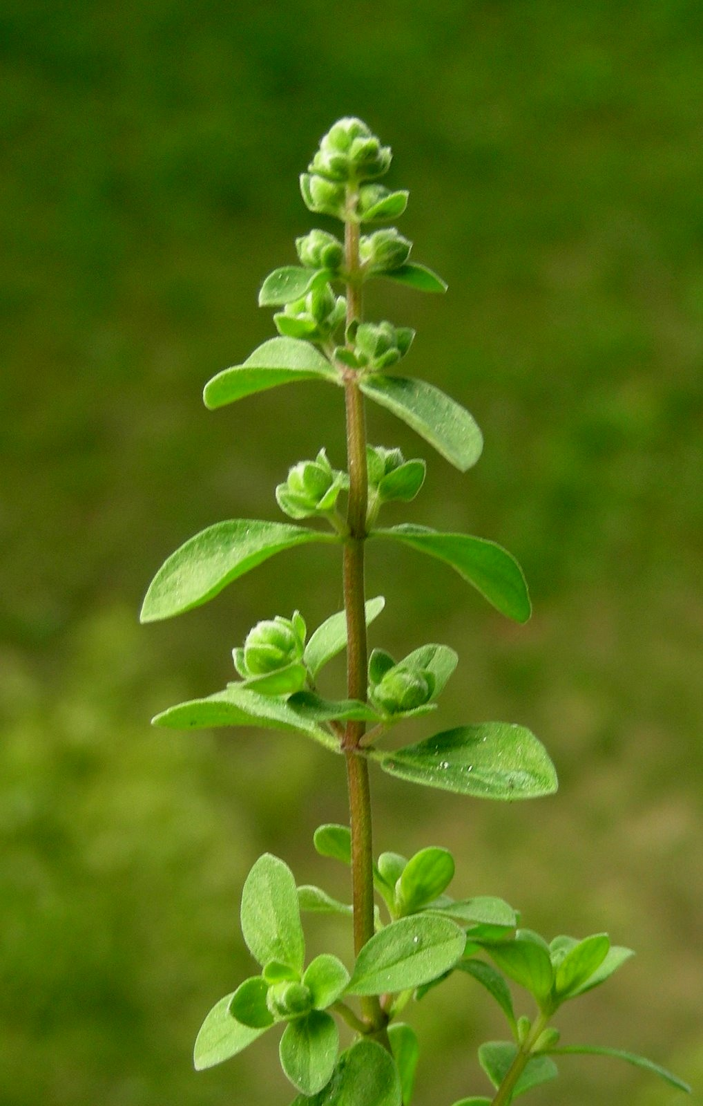 Marjoram